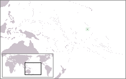 Location of Jarvis Island in the Pacific Ocean